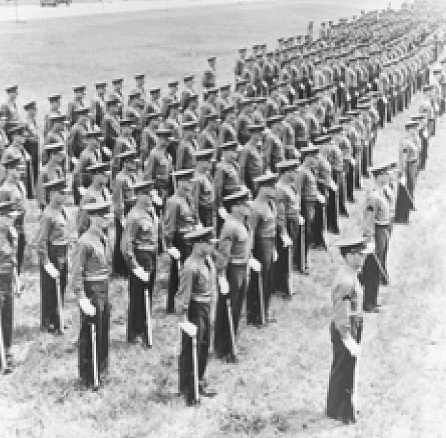 Maxwell Army Airfield Air Cadets being drilled, early 1940s